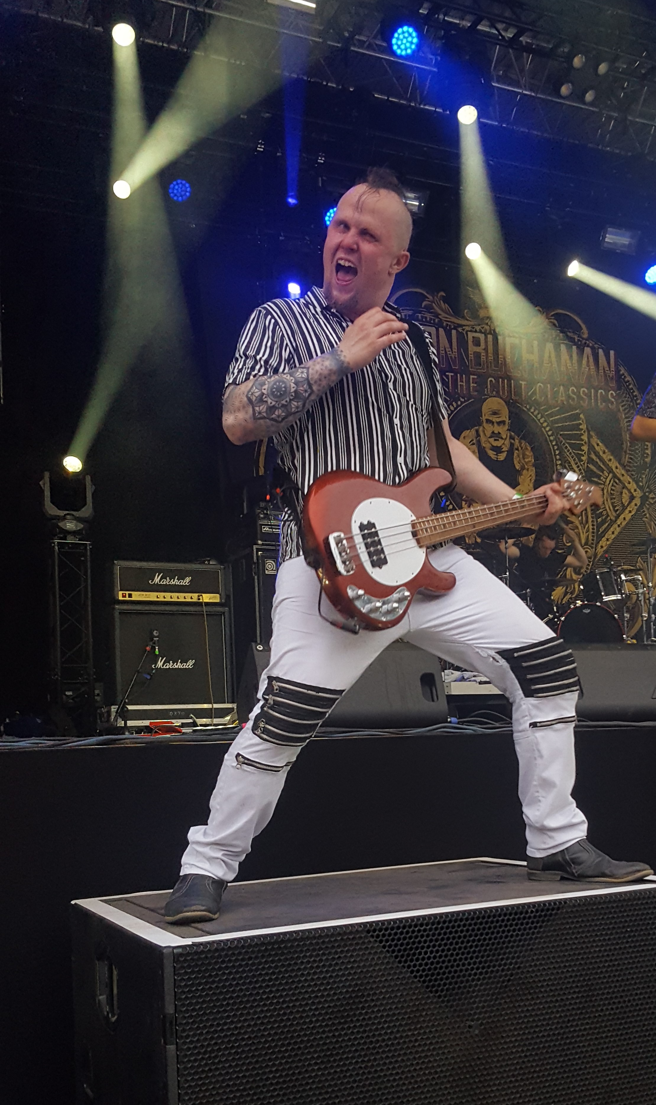 Mart Trail, bass guitarist with Aaron Buchanan & The Cult Classics, performing with the band in Germany, 27 July 2019